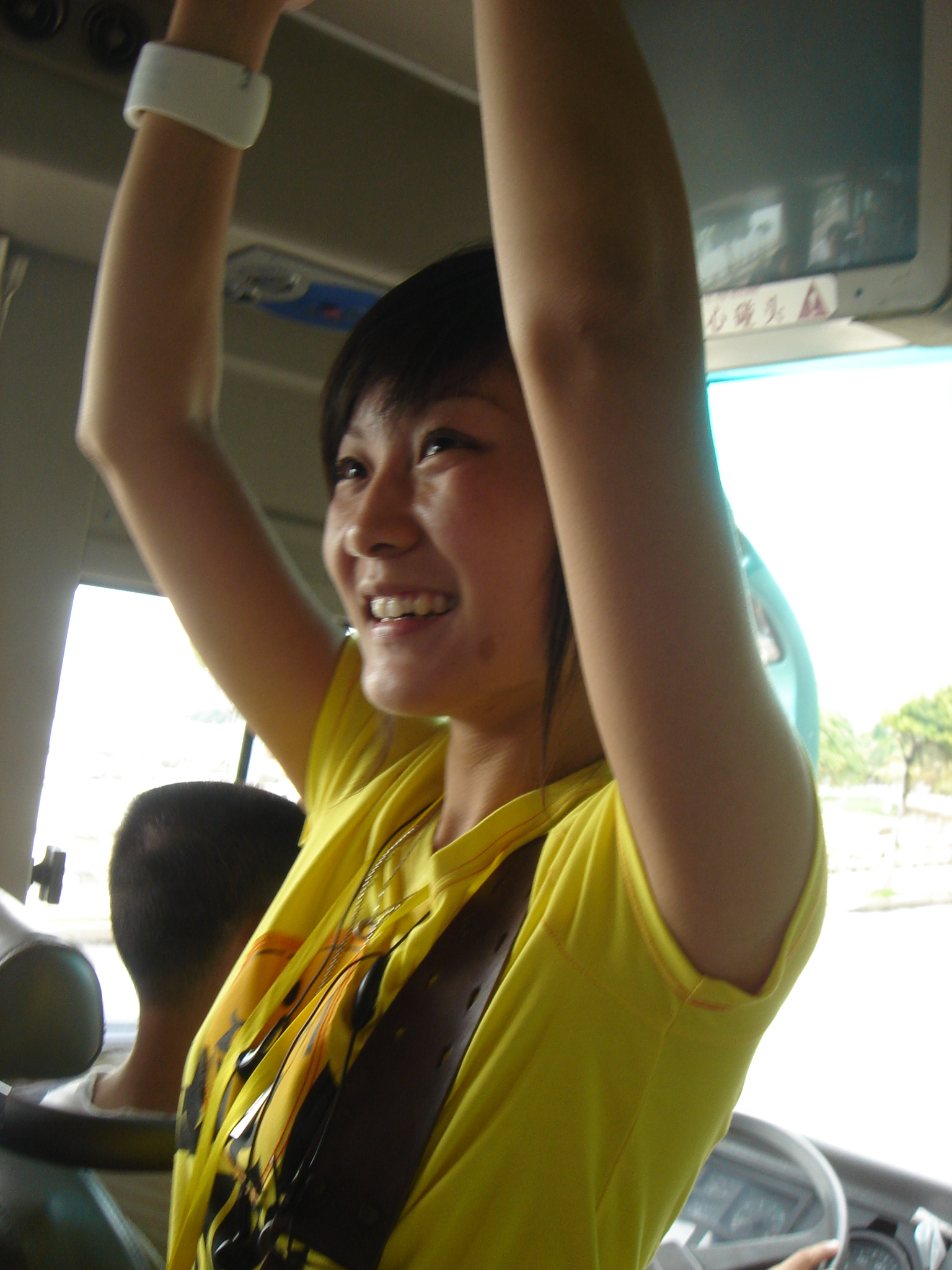 Tour guide Miss Xiao Tong, City of ZhuHai, GuangDong Province, China.